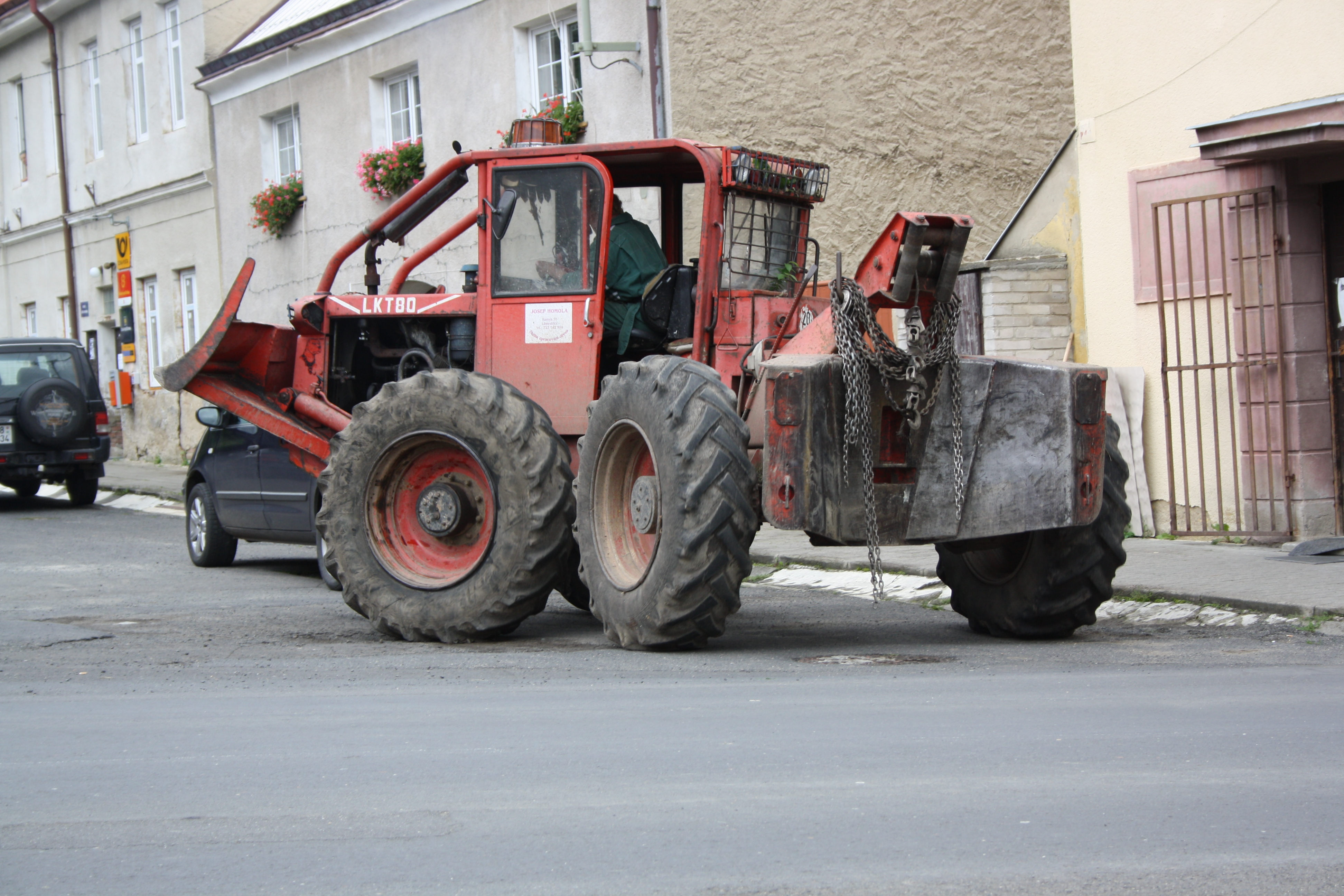 LKT 80 forest tractor in Milešov, Litoměřice District, Czech Republic.